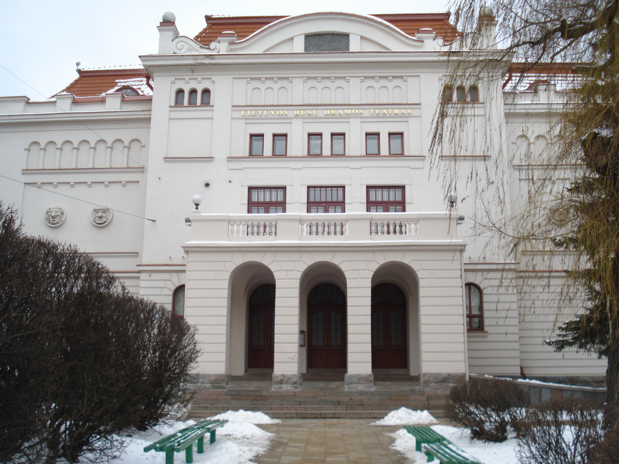 Russian Drama Theatre of Lithuania. Main facade (J. Basanavičiaus g. 13)